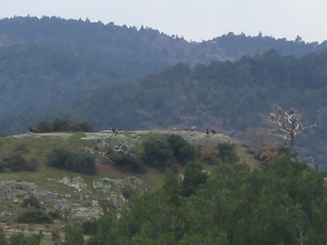 Photo of Dadia a hill and vultures in Dadia, Evros